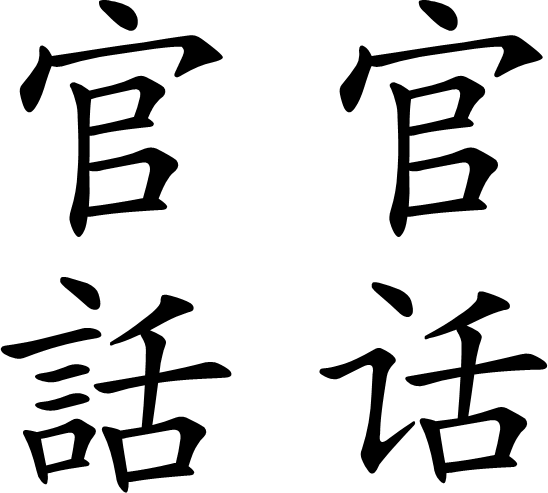 The Chinese characters "官話/官话" meaning Yue, in the 汉鼎简中楷/汉鼎繁中楷 truetype font